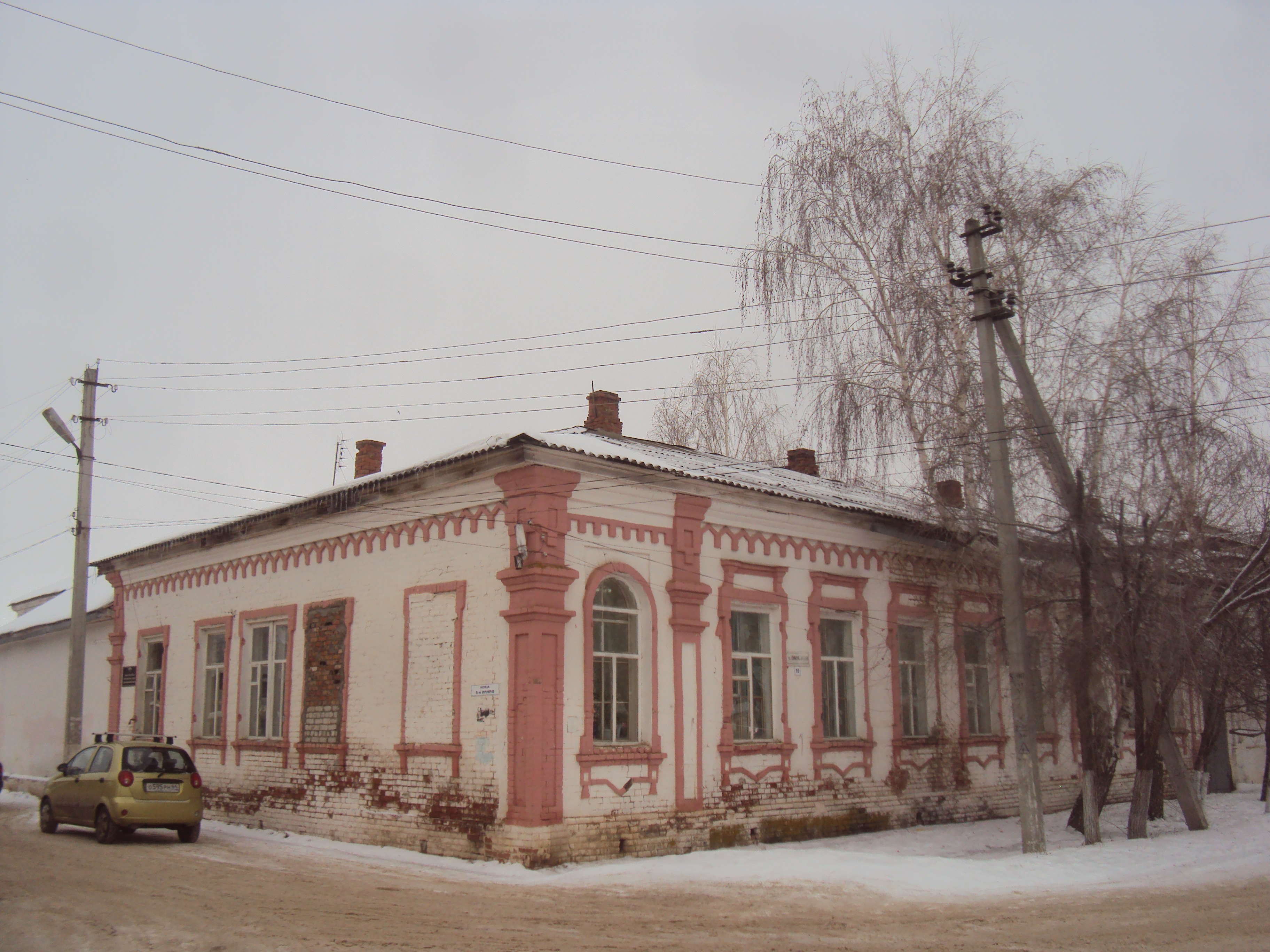 Girls grammar school